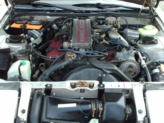 Nissan VG30ET Engine.